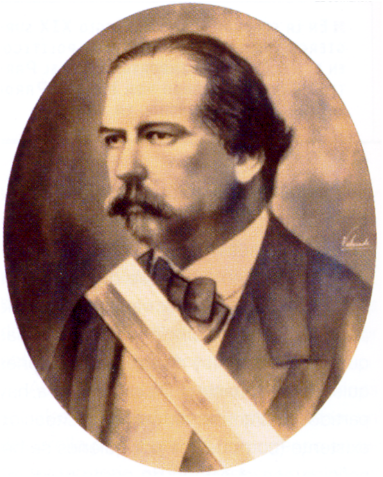 Manuel Pardo y Lavalle en 1872